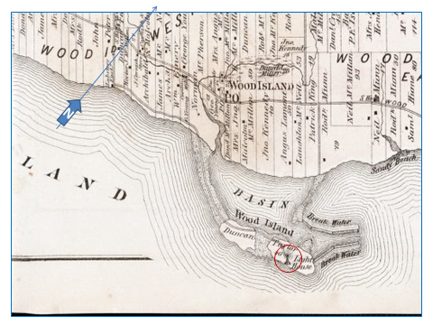 Annotated - Screen Shot of Wood Island Basin 1880 Lot Sixty Two, Queens County, PEI